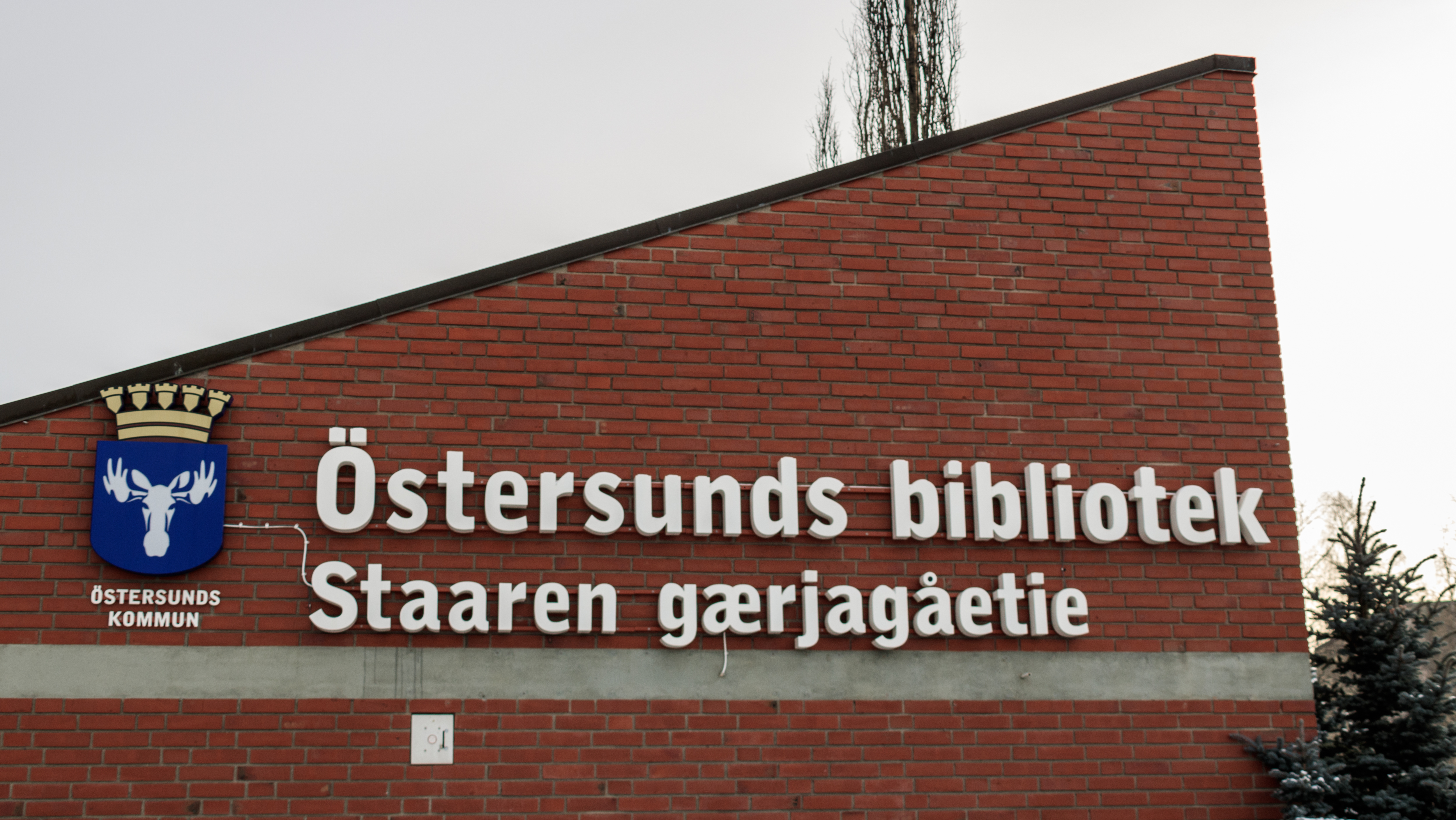 A sign for the Library in Östersund. The sign is in Swedish and Southern Sami language